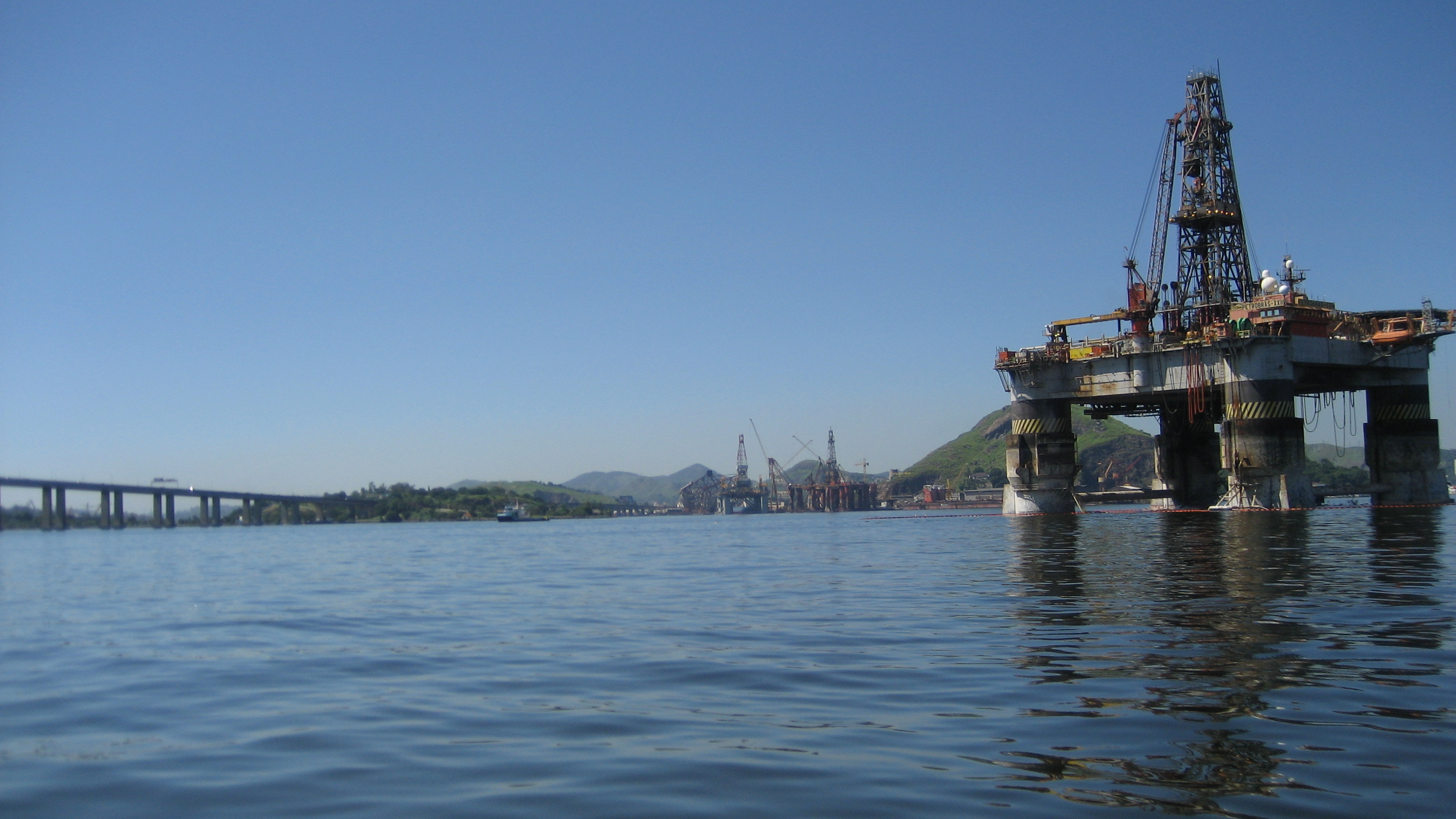 Platform in the shipyard - Niteroi - RJ - Brazil